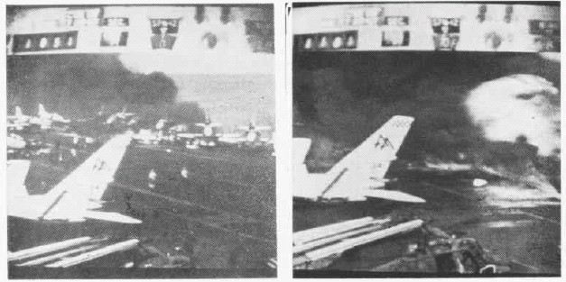 Two views of the aft deck camera of the U.S. aircraft carrier USS Forrestal (CVA-59) on 29 July 1967 in the Gulf of Tonking during the Vietnam war, when an accidentially launched rocket led to a catastrophe that killed 134, and injured 62. 21 aircraft of Attack Carrier Air Wing 17 (CVW-17) (tail code "AA") were destroyed. The aircraft (tail) visible in the foreground is a North American RA-5C Vigilante (AA-603) of heavy reconnaissance squadron RVAH-11 Checkertails. The planes next to the fire are Douglas A-4E Skyhawks of attack squadrons VA-106 Gladiators (AA-3XX) and VA-46 Clansmen (AA-4XX). Starting from the right the following A-4Es are visible: AA-312 (pilot Ltjg. Don Dameworth), AA-417 (Ltjg. David Dollarhide), AA-416 (LCdr. John S. McCain III), AA-405 (LCdr. Fred White, killed), AA-407 (LCdr. Gerry Stark, missing), AA-414 (LCdr. Herb Hope), AA-303 (LCdr. Robert Browning), AA-301 (LCdr. Ken McMillen), and AA-410 (Lt. Dennis Burton, missing). To the left the nose of a McDonnell F-4B Phantom is visible, probably AA-101 or AA-112 of fighter squadron VF-11 Red Rippers. The fire started, when a "Zuni" rocket from the F-4s on the left was launched at 10:50h and slammed into the drop tank of A-4E AA-405. If you look at the clock in the upper left corner, it seems to read "10:51". The next photo seems to be taken ten minutes later when bombs and aircraft were exploding.